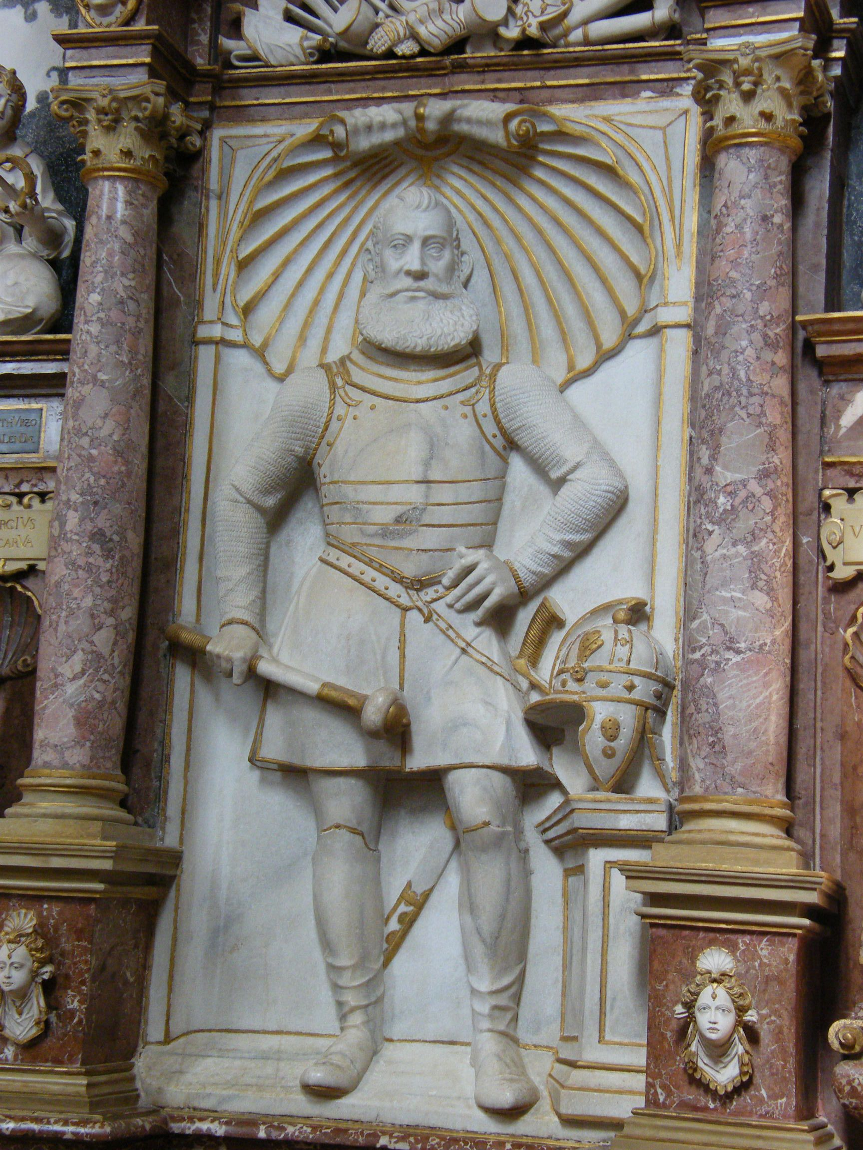 Tomb of György Thurzó, 1616 (detail), Orava